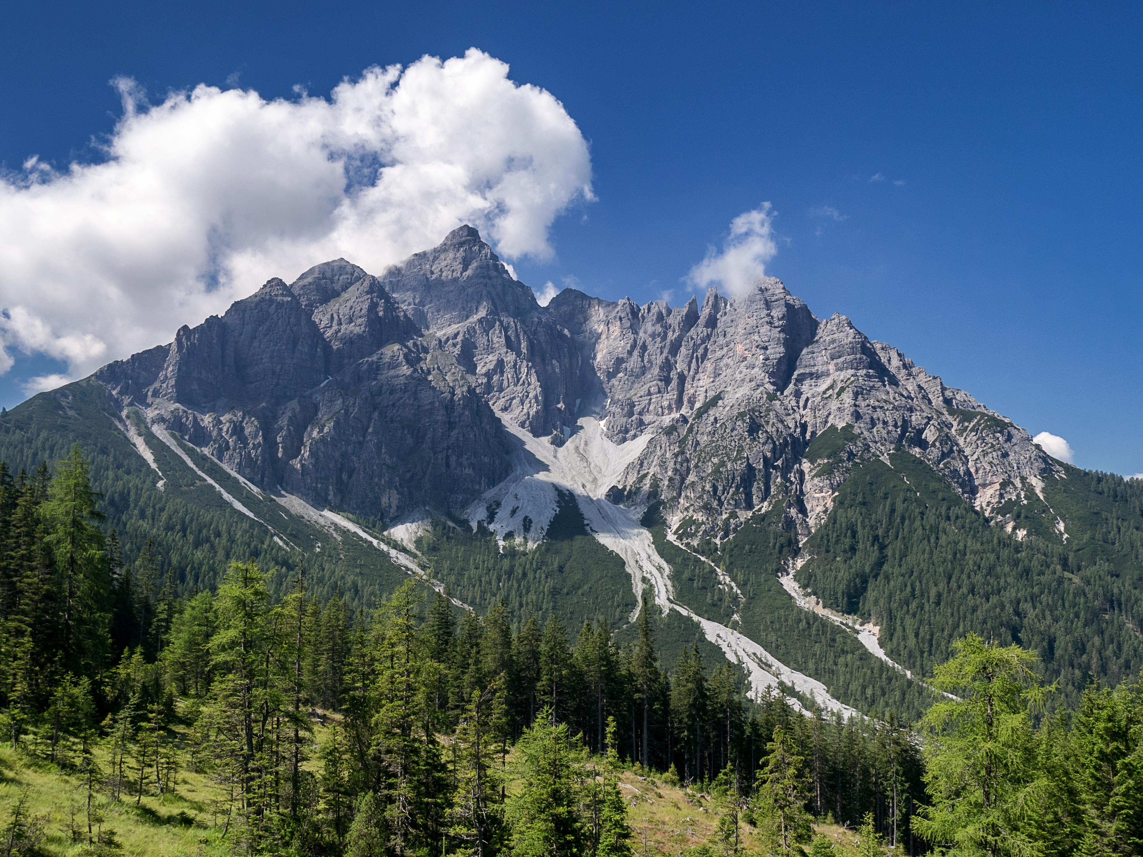 Serles mountain as seen from the Koppeneck area. Mieders, Stubay Valley, Tyrol, Austria